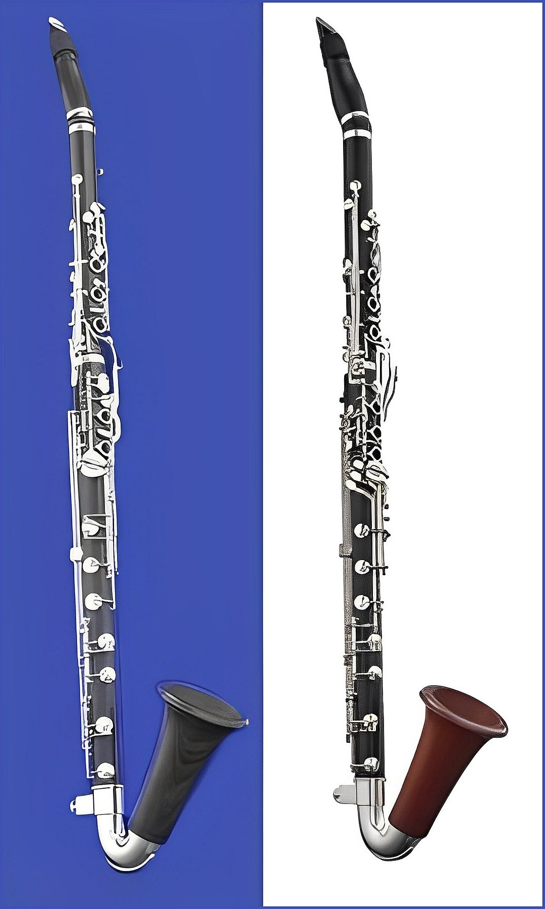 Basset horns german and french system